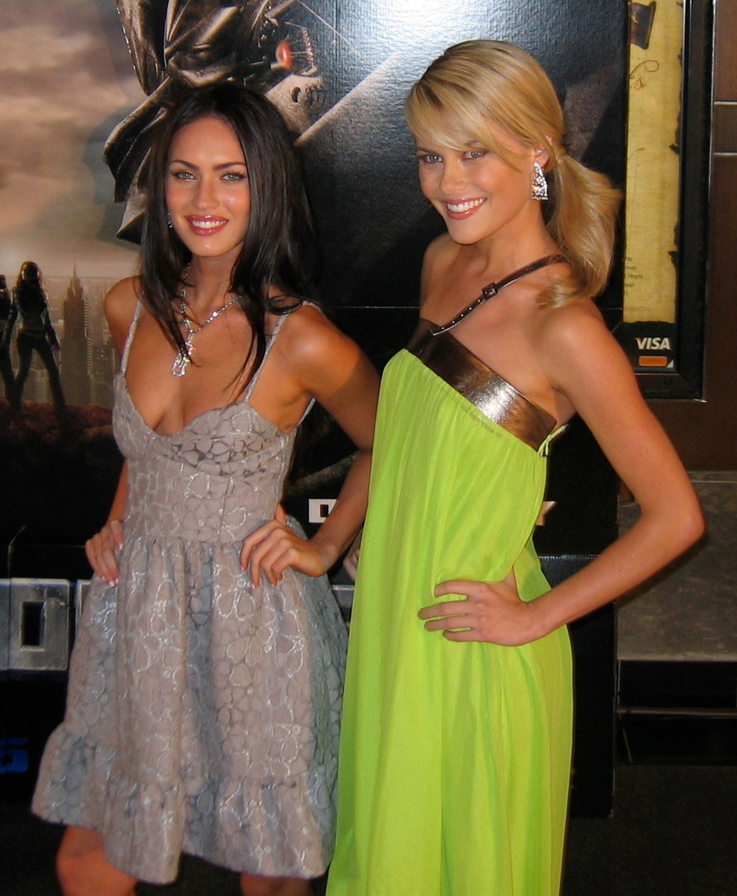 A picture of Megan Fox and Rachael Taylor at the premere of Transformers in Sydney, Australia; cropped and balanced